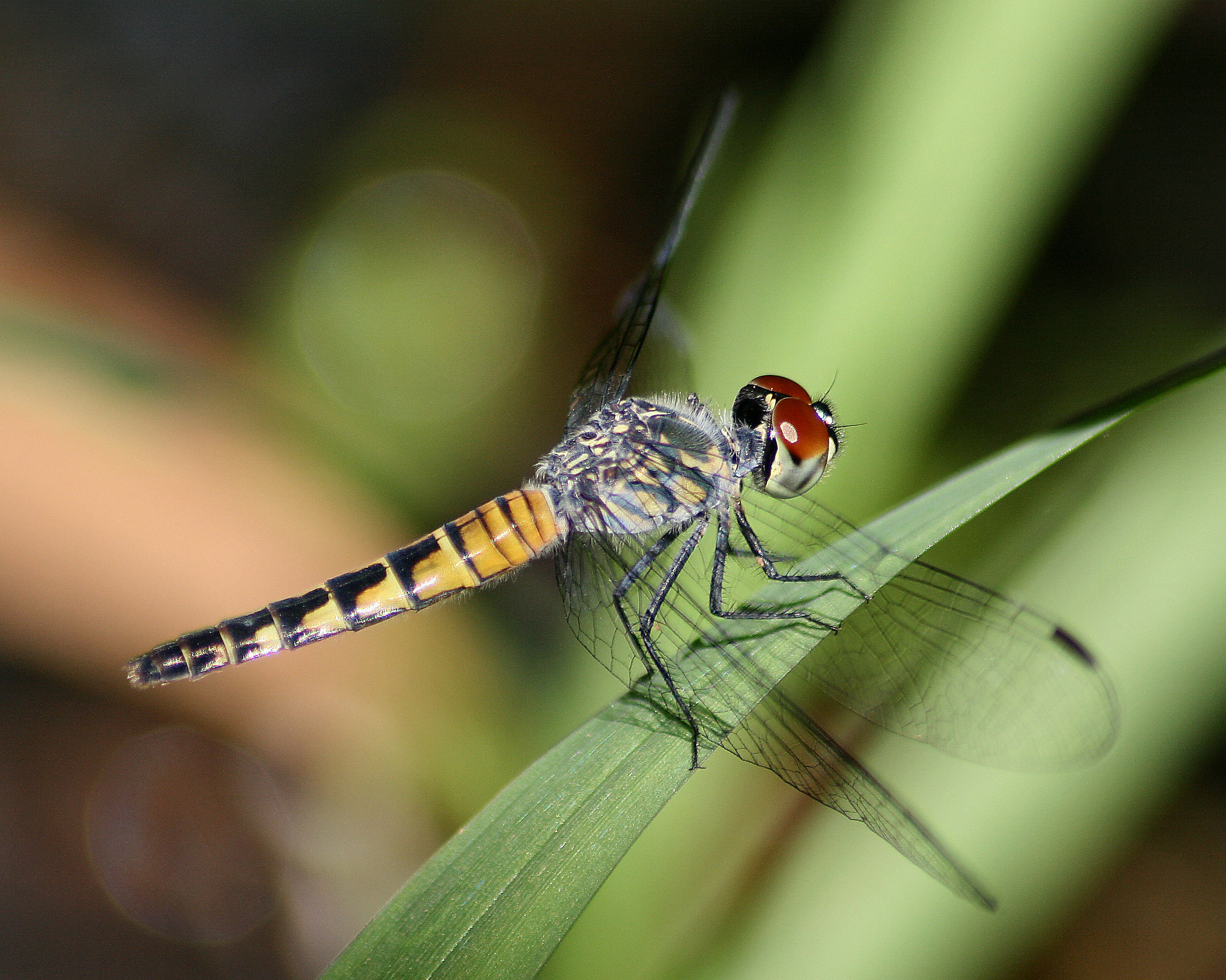 Brachydiplax denticauda - Palemouth (female).